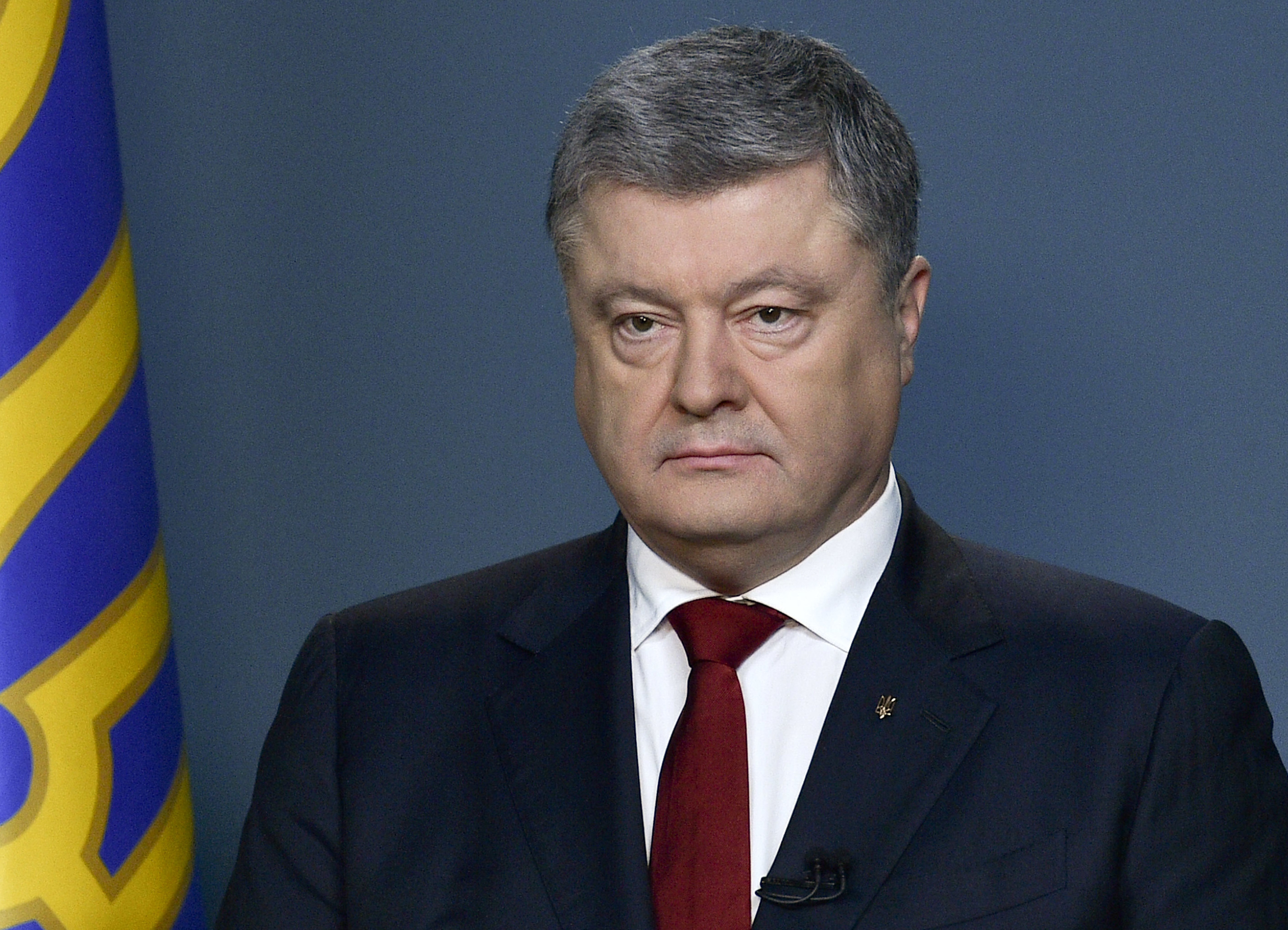 Portrait of the President of Ukraine Petro Poroshenko